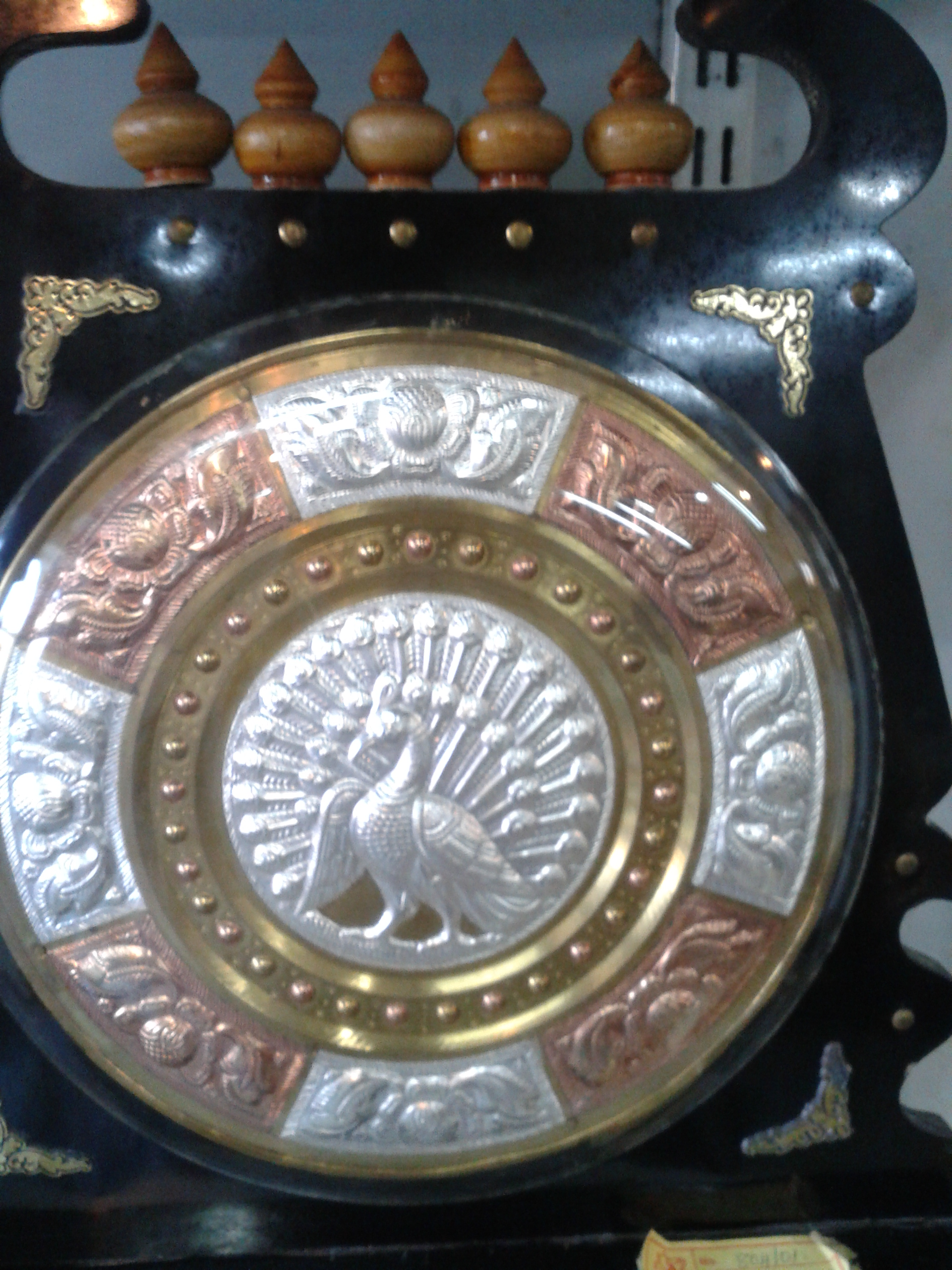 Thanjavur Art Plate a wall plaque made with a combination of three metals namely Brass for the base( Plate) and Copper and Silver figure embedded on the same.. This Tanjore Art is in possession by all art lovers.